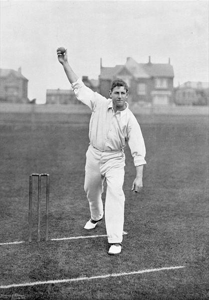 Staged photograph of England and Australian Test all-rounder Sammy Woods. This image was published as part of the 'Famous Cricketers and Cricket Grounds' collection in 1895 by Hudson and Kearns.